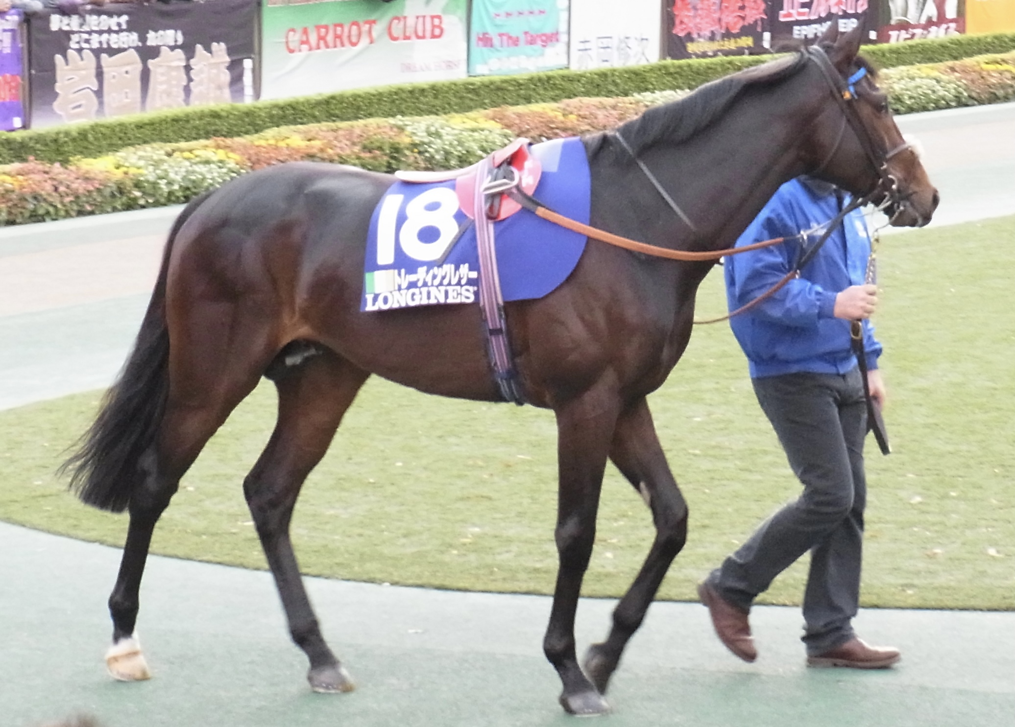 Trading Leather before the start of the 2014 Japan Cup. The horse fractured a leg during the running and was euthanized.